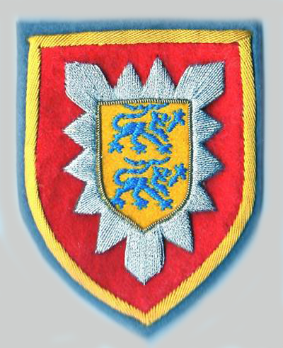 18th Tank Brigade